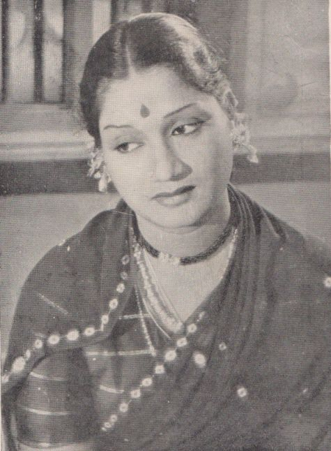 G. Varakashmi (1926-2006), South Indian actress